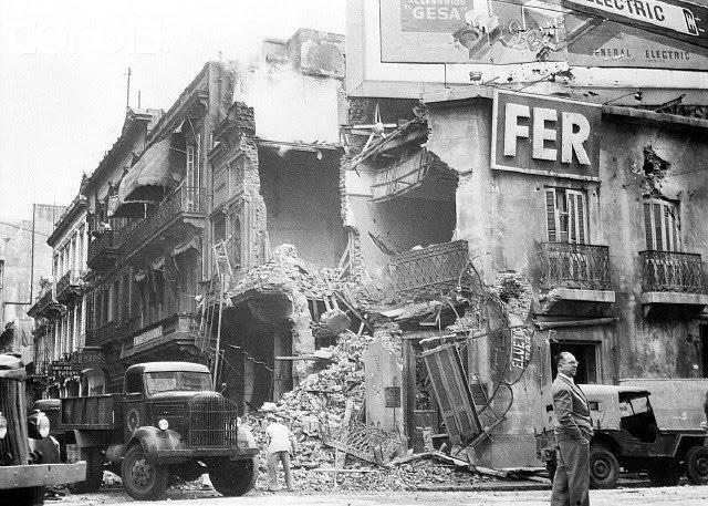 Local de la Alianza Libertadora Nacionalista en Buenos Aires, bombardeada por el Ejército en los acontecimientos denominados "Revolución Libertadora" en 1955.